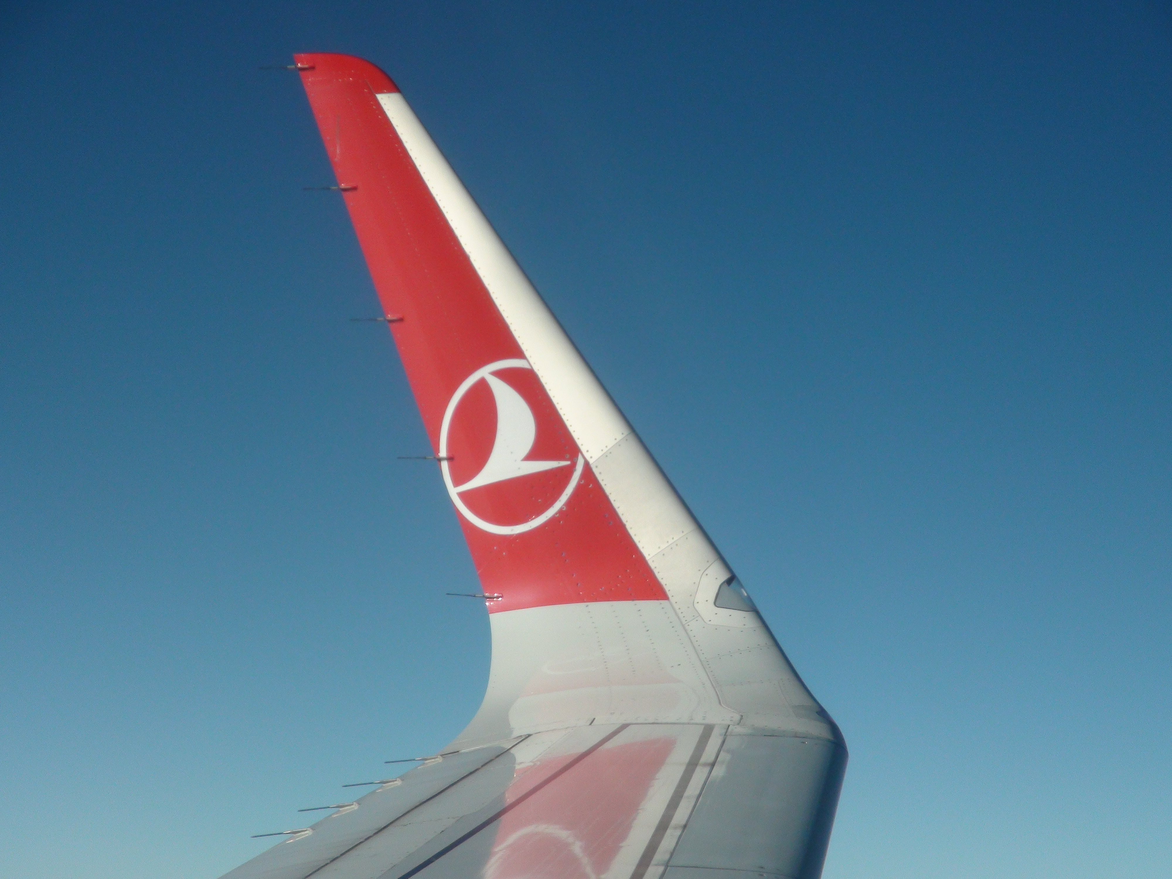 Blended wingtip device of an Airbus A321 (V2500 variant) aircraft bearing the Turkish Airlines logo.